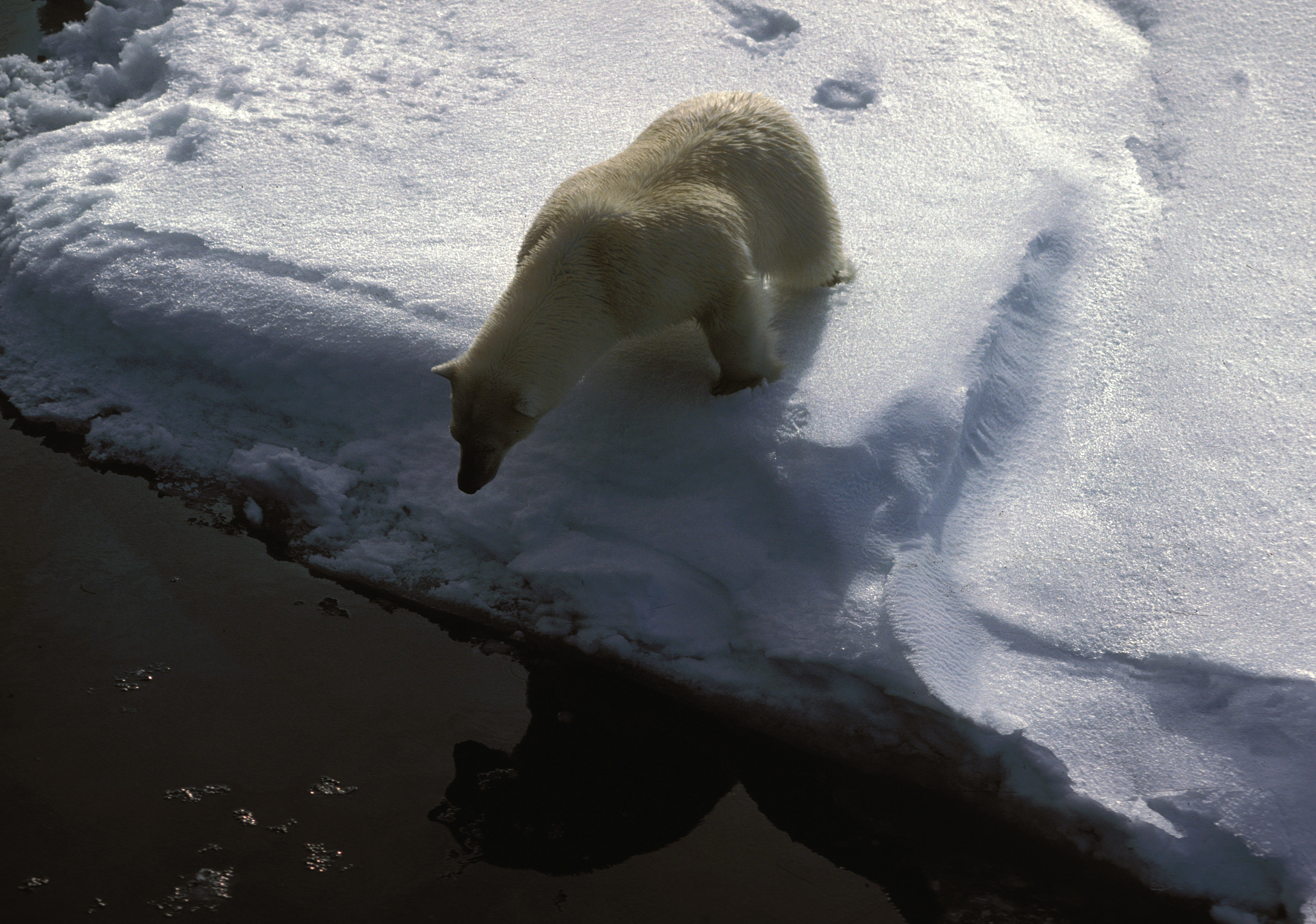 Polar bear (Ursus maritimus) on sea ice ab. 200 km north of Svalbard. Foto taken on cruise ARK-VIII/2 of the german research vessel POLARSTERN